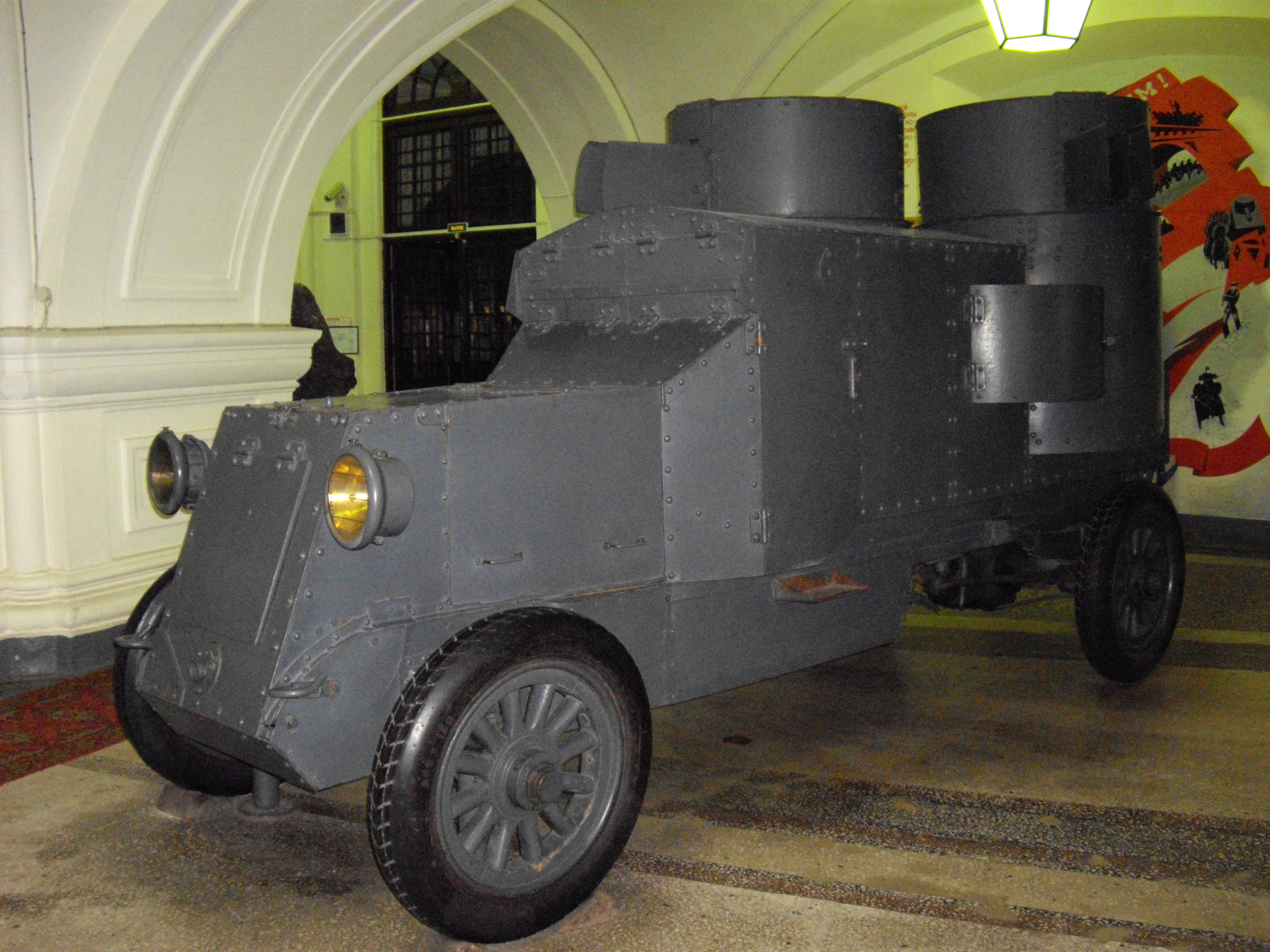 "Austin-Putilovets" (Russian modification of the Austin Armoured Car) in the Artillery Museum (Saint-Petersburg)